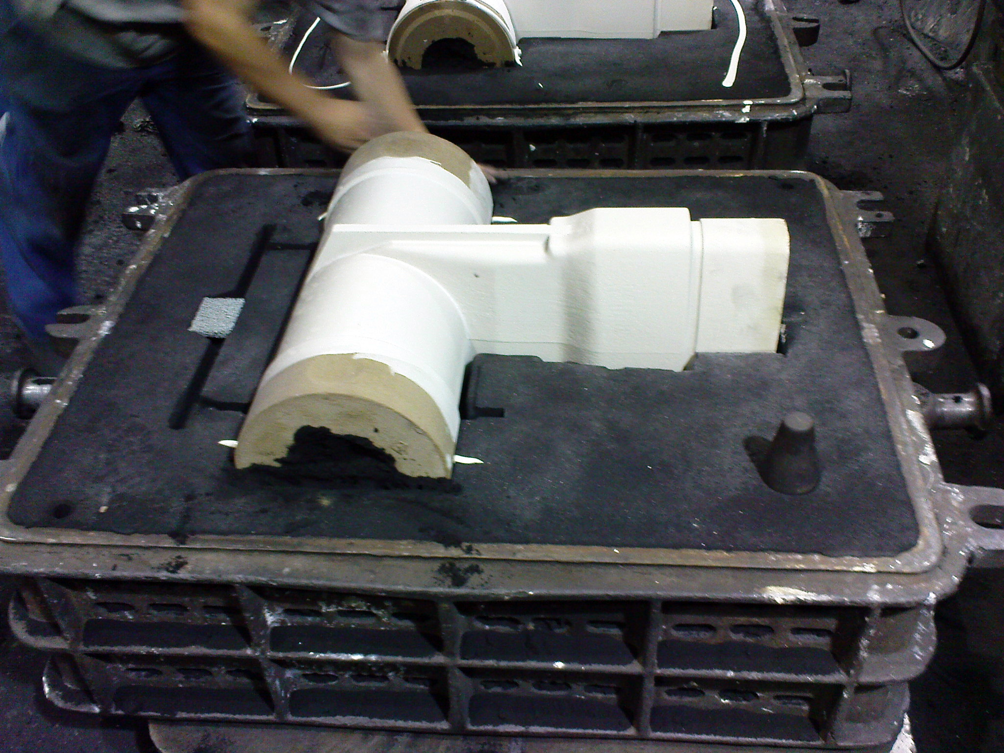 form with core